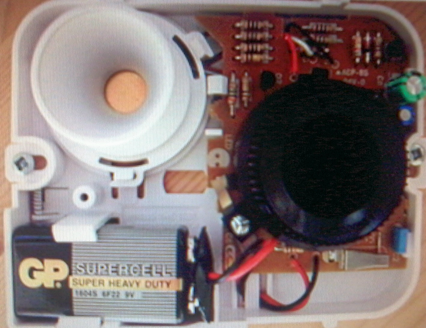 Ionization smoke detector